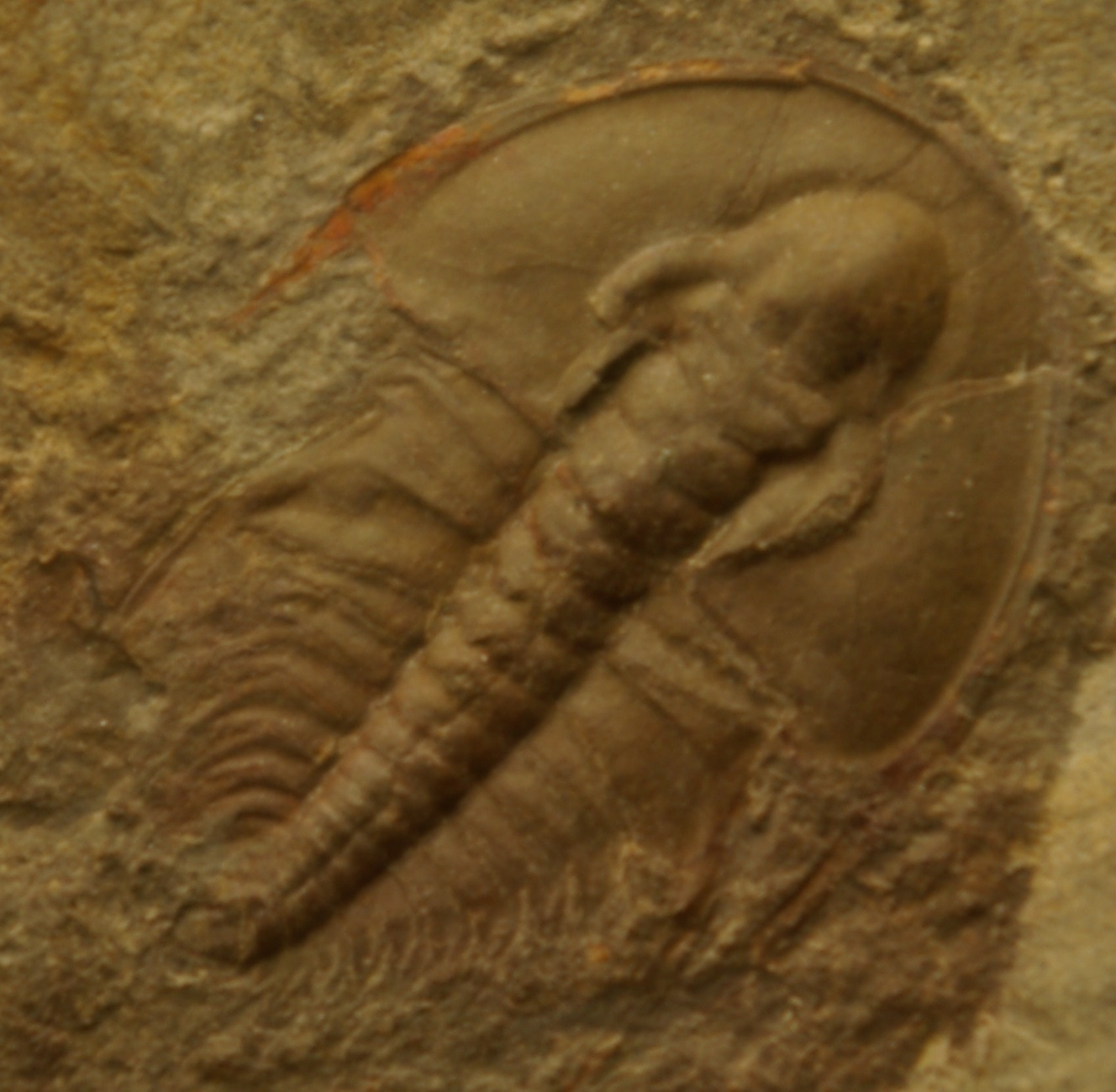 Olenellus Gilberti